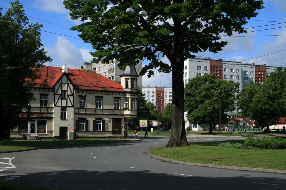 Buļļu street in Ilģuciems neighbourhood, Riga.